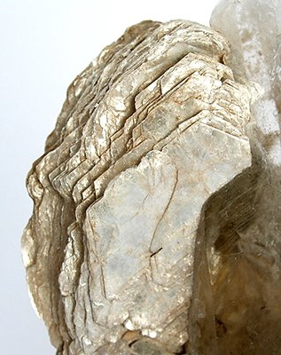 Muscovite, Quartz Locality: Pack Rat Mine, Mt. Tule, Jacumba District, San Diego County, California, USA (Locality at ) Size: small cabinet, 7.0 x 4.4 x 1.1 cm Quartz and Muscovite A neat combination piece, and actually a good muscovite for a County collection. Self-collected by Chuck during late 1980's/early 1990's while the mine was owned and worked by Fred Stevens. Ex. Chuck Houser Collection.